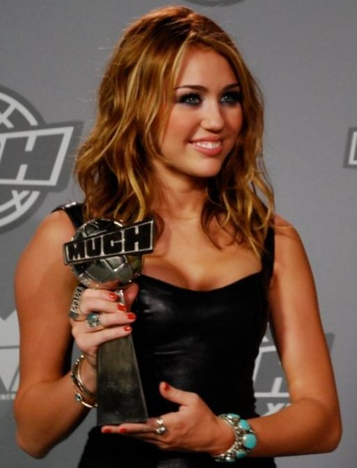 Miley Cyrus at the 2010 Much Music Video Awards.